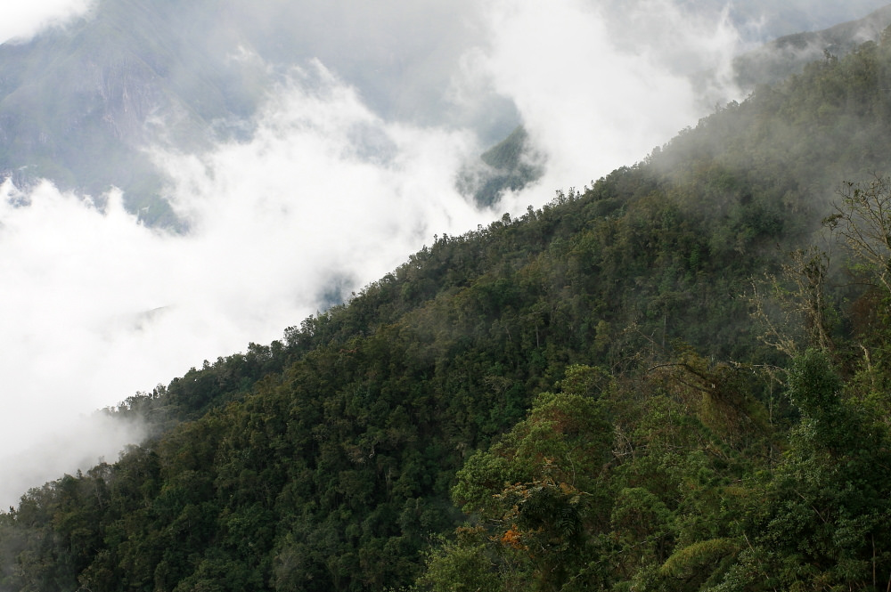 Section of vereda El Cinco located in the mountain range Serranía de Perijá, on the Colombia-Venezuela border.